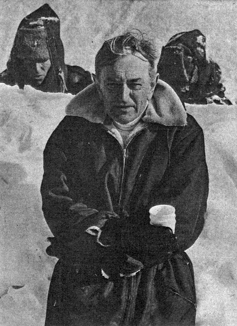 Photograph of the English film director David Lean (1908–1991) in Northern Finland early in 1965, during the shooting of "Doctor Zhivago".